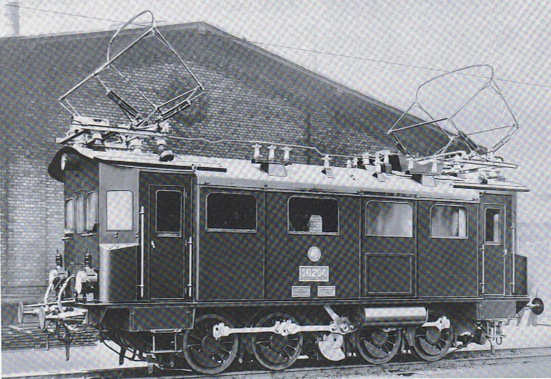 Electric locomotive Preußische EG 502